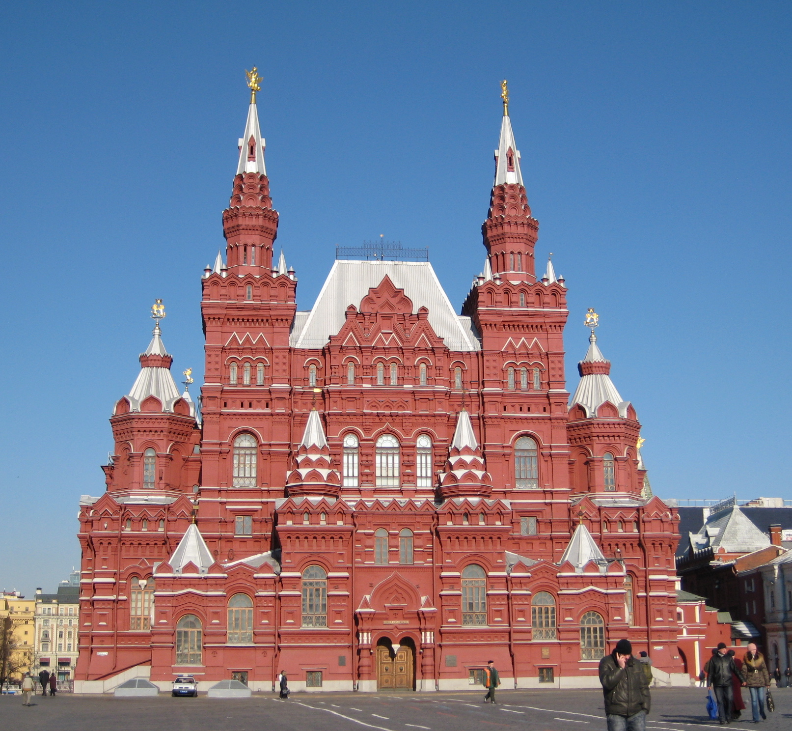 Moscow State Historical Museum (Red Square, Moscow, Russia)